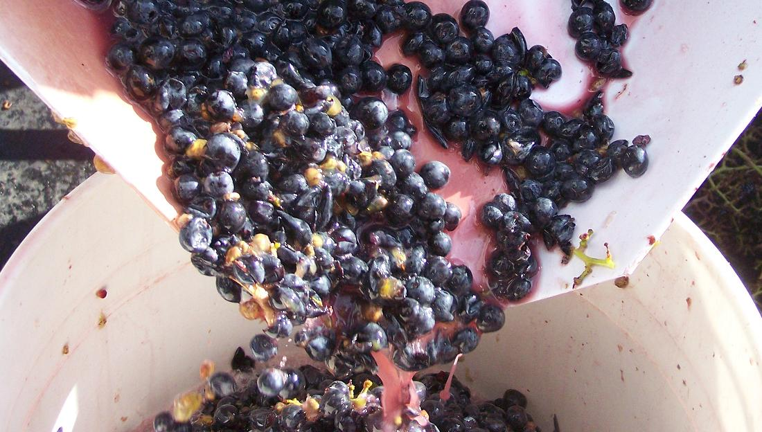 Image of crushed grapes. Photo taken at Mountain Homebrew in Kirkland, WA on October 14th, 2007 with a Kodak z650.